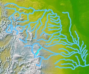 Watershed of the Laramie River.